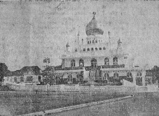 Syuhada Mosque in Yogyakarta